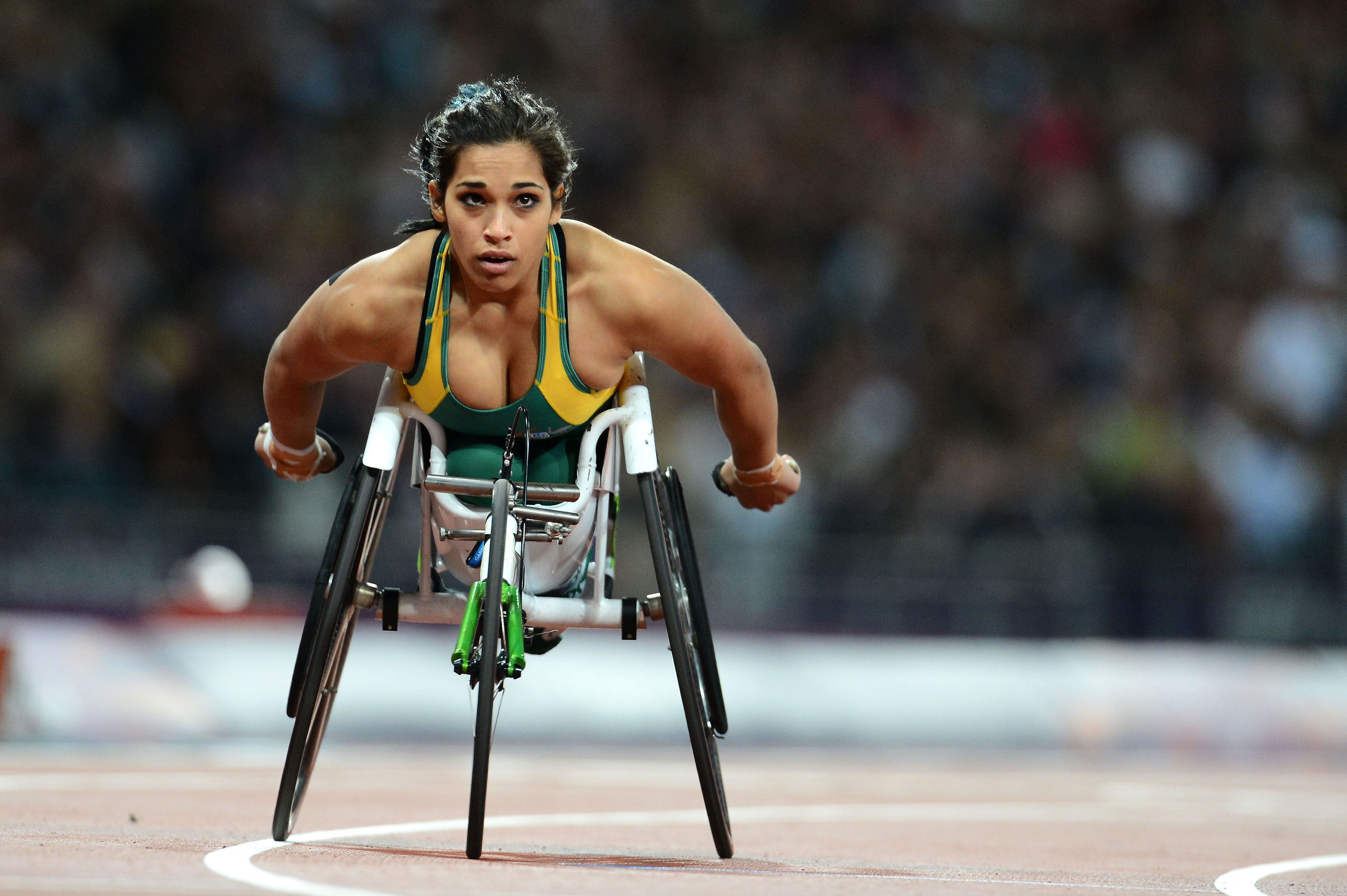 Photograph of Australian Paralympic team member Madison de Rozario at the 2012 Summer Paralympic Games in London